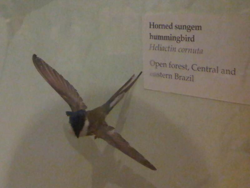 Taxidermied Horned Sungem (Heliactin bilophus) at the Natural History Museum in London, England.